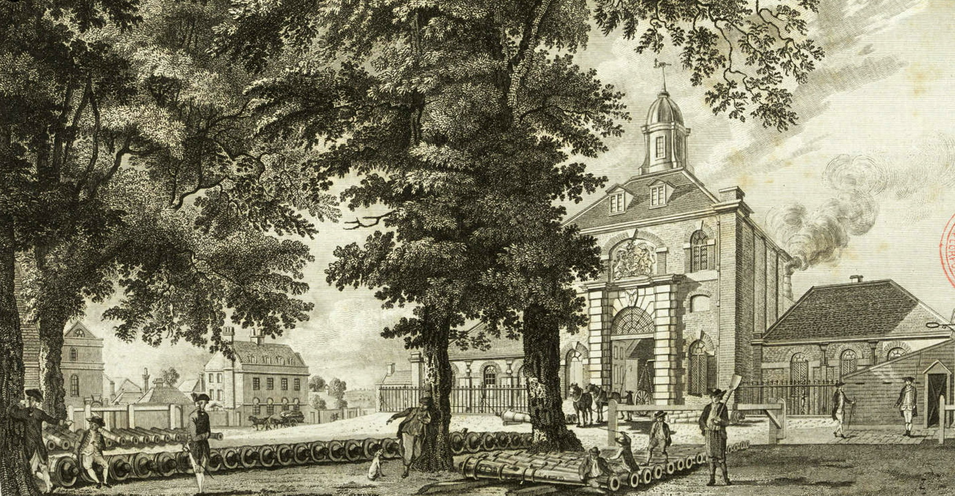 View of the Royal Foundry at Woolwich Warren (later Royal Arsenal). To the left Verbruggen's House. Engraving by James Fittler, after a drawing by Paul Sandby (1779). Collection of the London Metropolitan Archives.